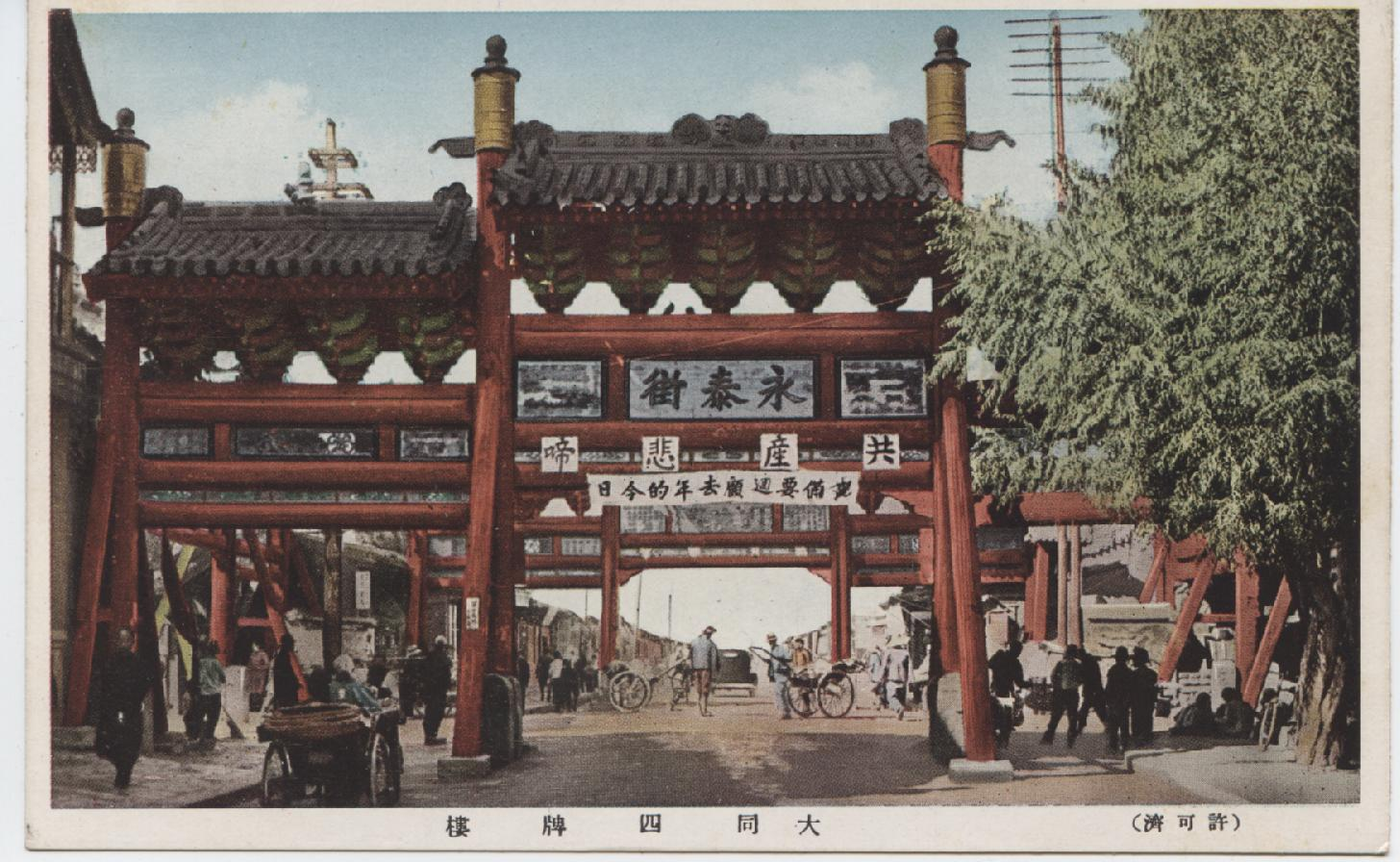 Sipailou, Datong, Shanxi, China